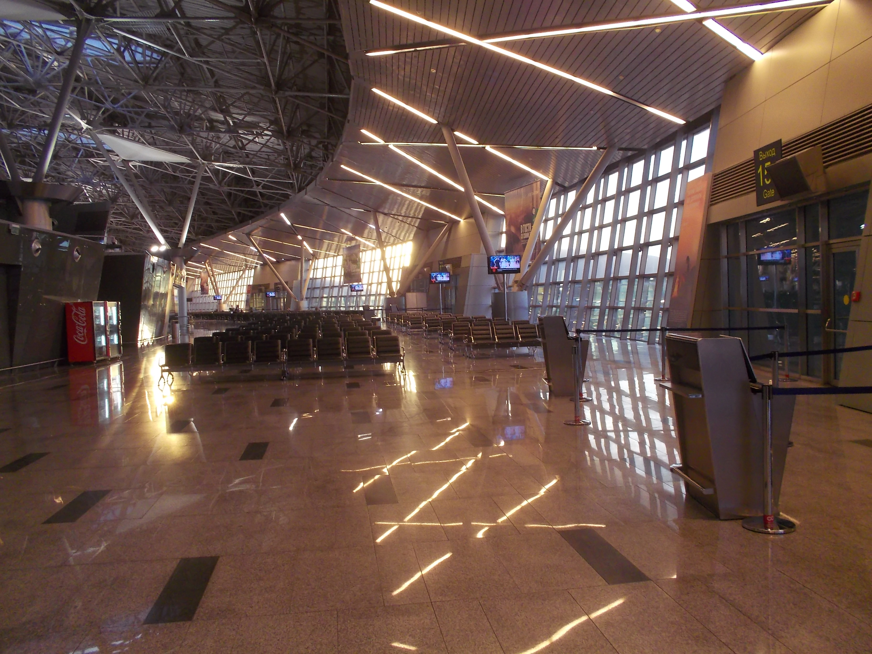 Vnukovo, terminal A, domestic part, departure hall